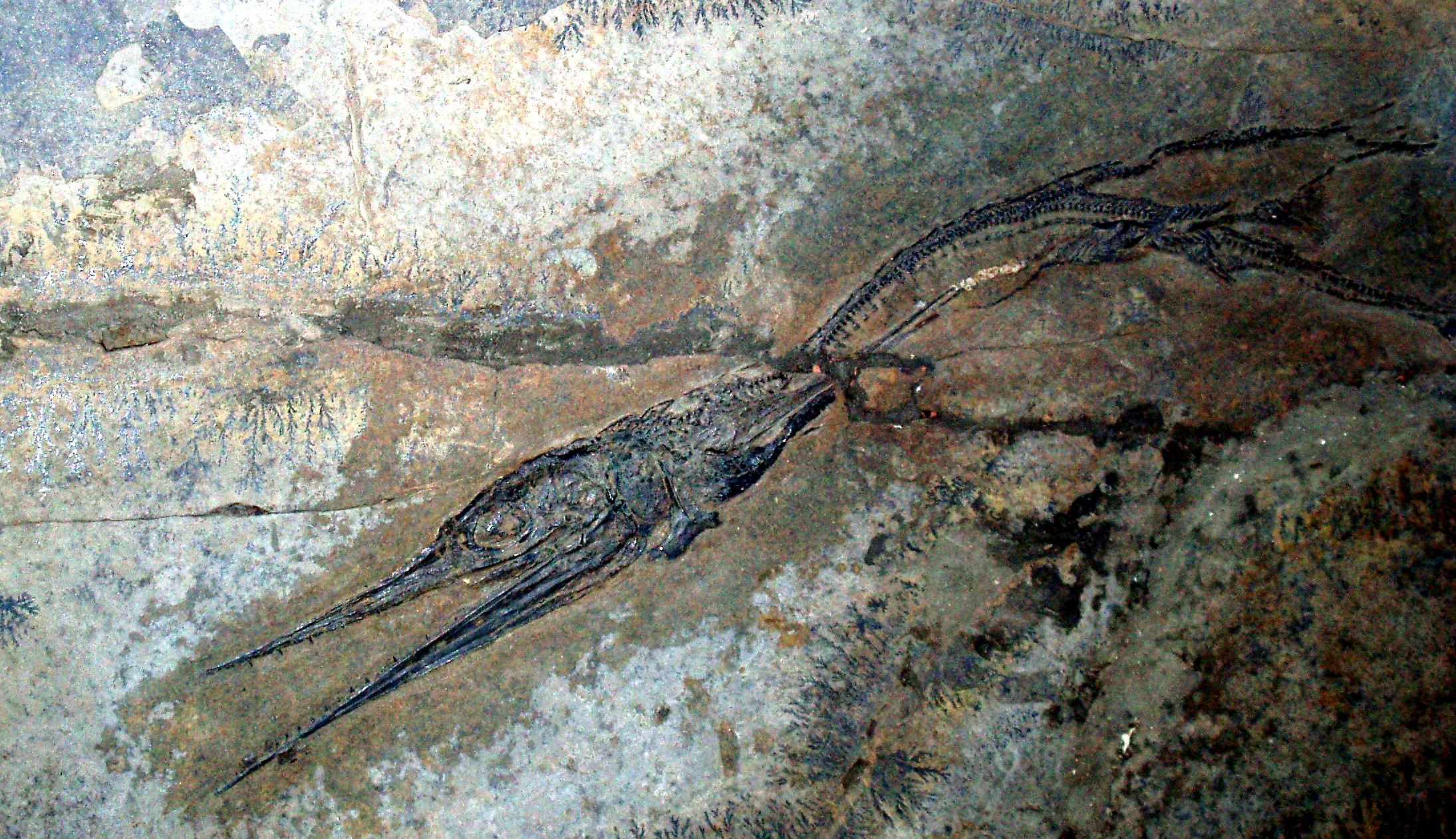 Fossil of Saurichthys, an extinct fish